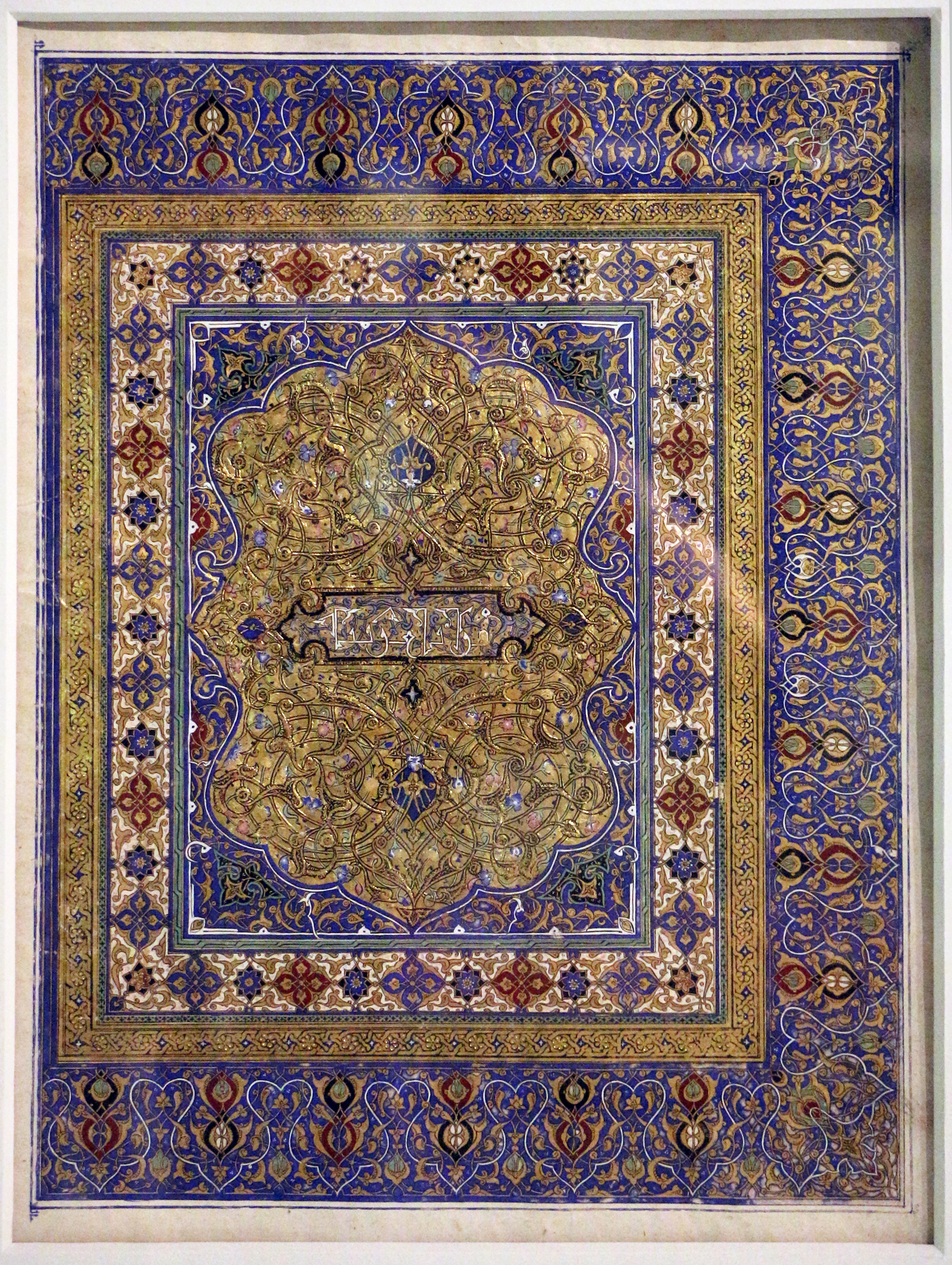 Islamic art in the Calouste Gulbenkian Museum